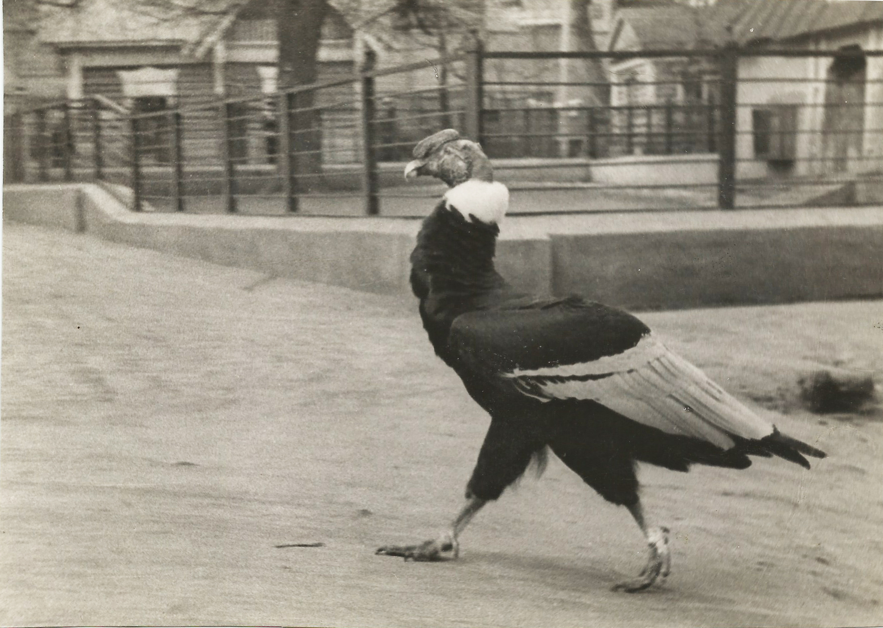 Andean condor Kuzya (the hero of the story of Vera Chaplina Condor). Moscow Zoo, 1940. (Kuzya lived in the Moscow Zoo from 1892 to 1963).